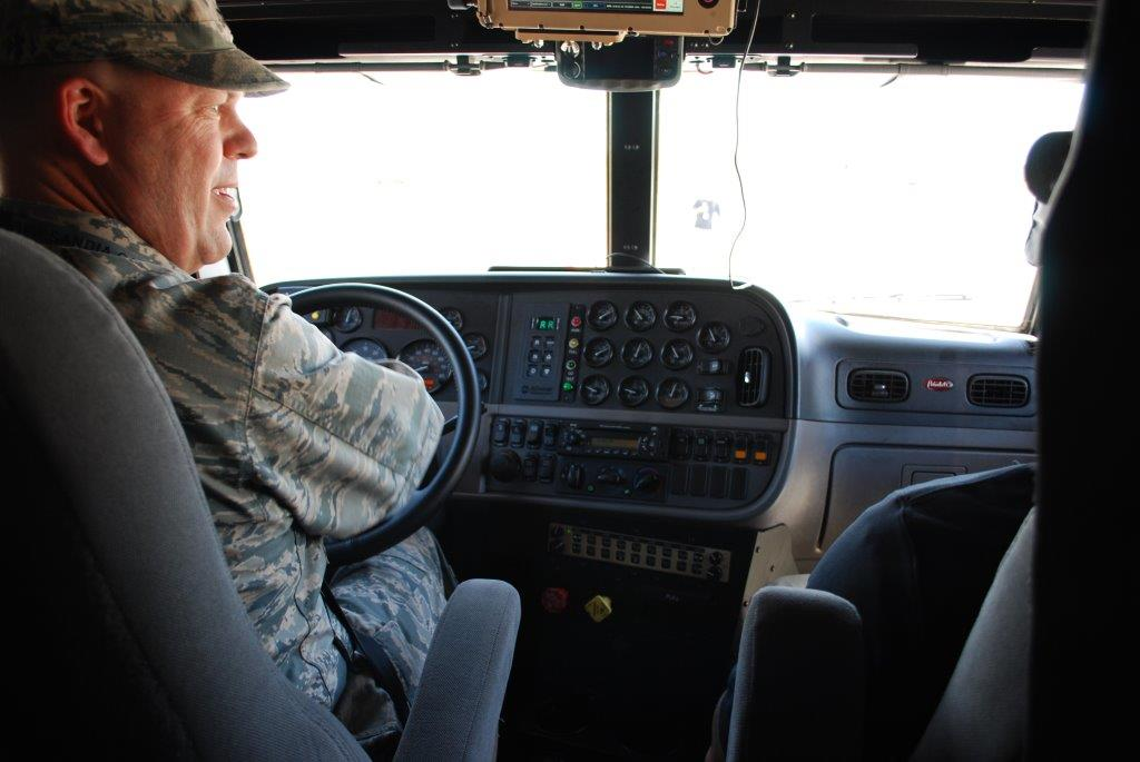 Brigadier General Stephen L. Davis, NNSA’s Acting Deputy Administrator for Defense Programs, gets a lesson on how to drive a Safeguards Transporter during a recent visit to the Office of Secure Transportation (OST) headquarters in Albuquerque, New Mexico. OST is responsible for transporting nuclear weapons, components and special nuclear materials to Department of Energy and Department of Defense customers throughout the nation.